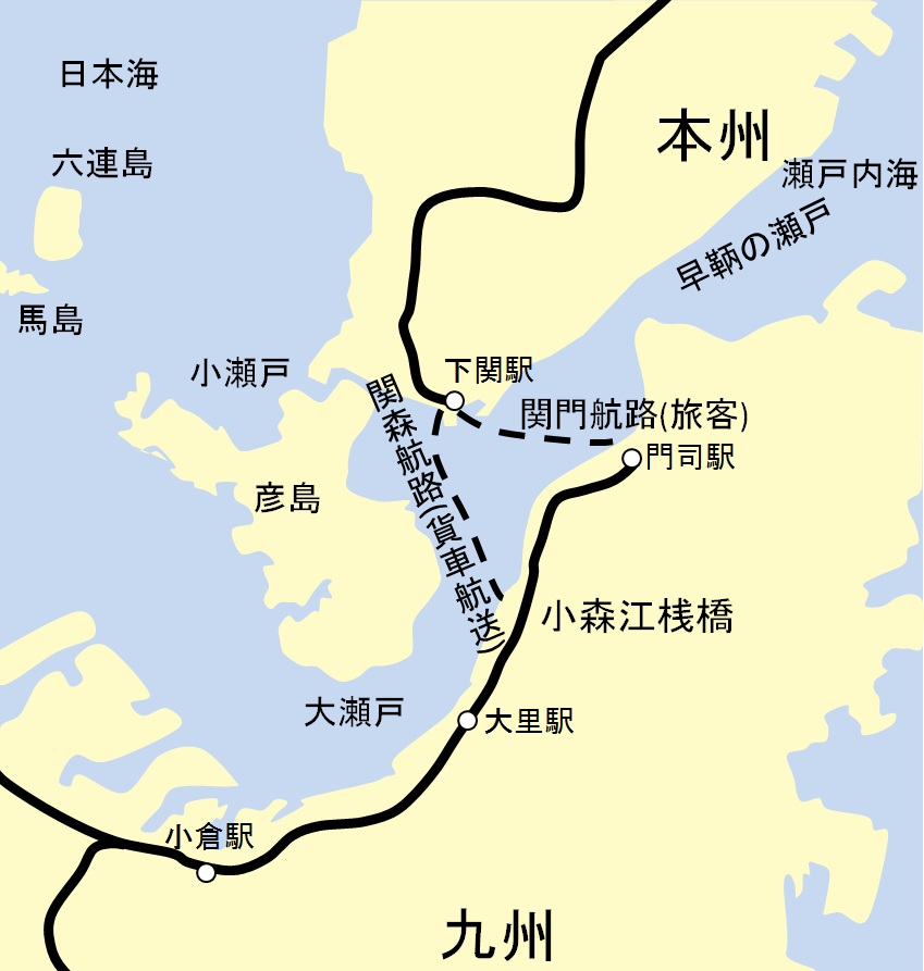 Map of train ferry crossing Kammon straight.